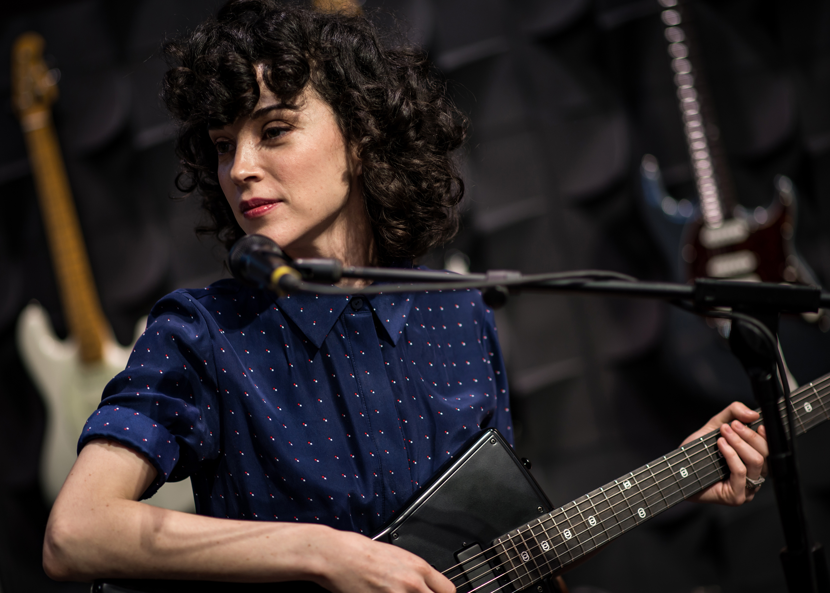 St. Vincent (Annie Clark) interview and live demo in the Ernie Ball booth at the Winter NAMM Show in Anaheim California on Thursday January 19, 2017.